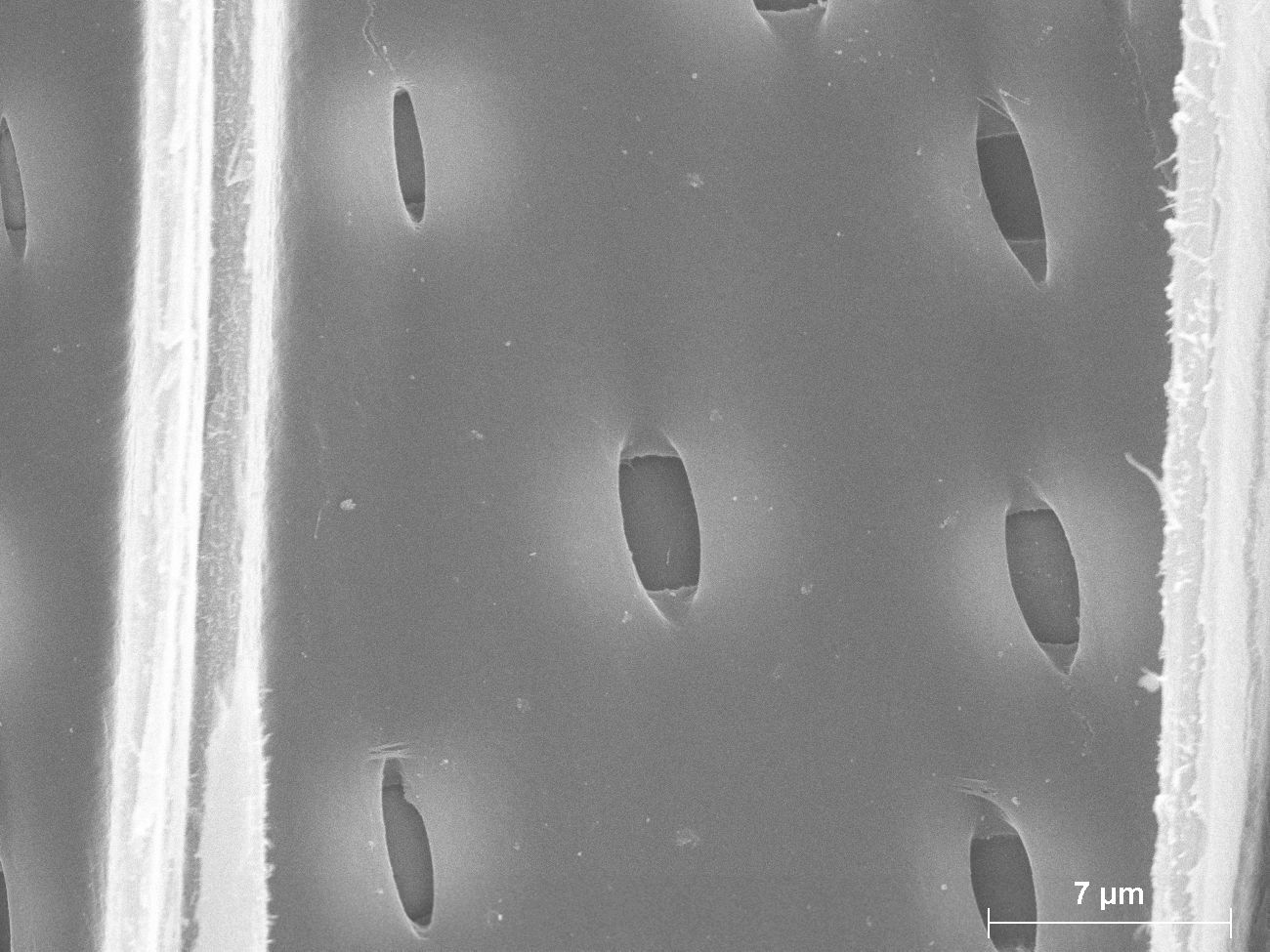 Piceoid, half-bordered pit in the cross field (Picea abies)